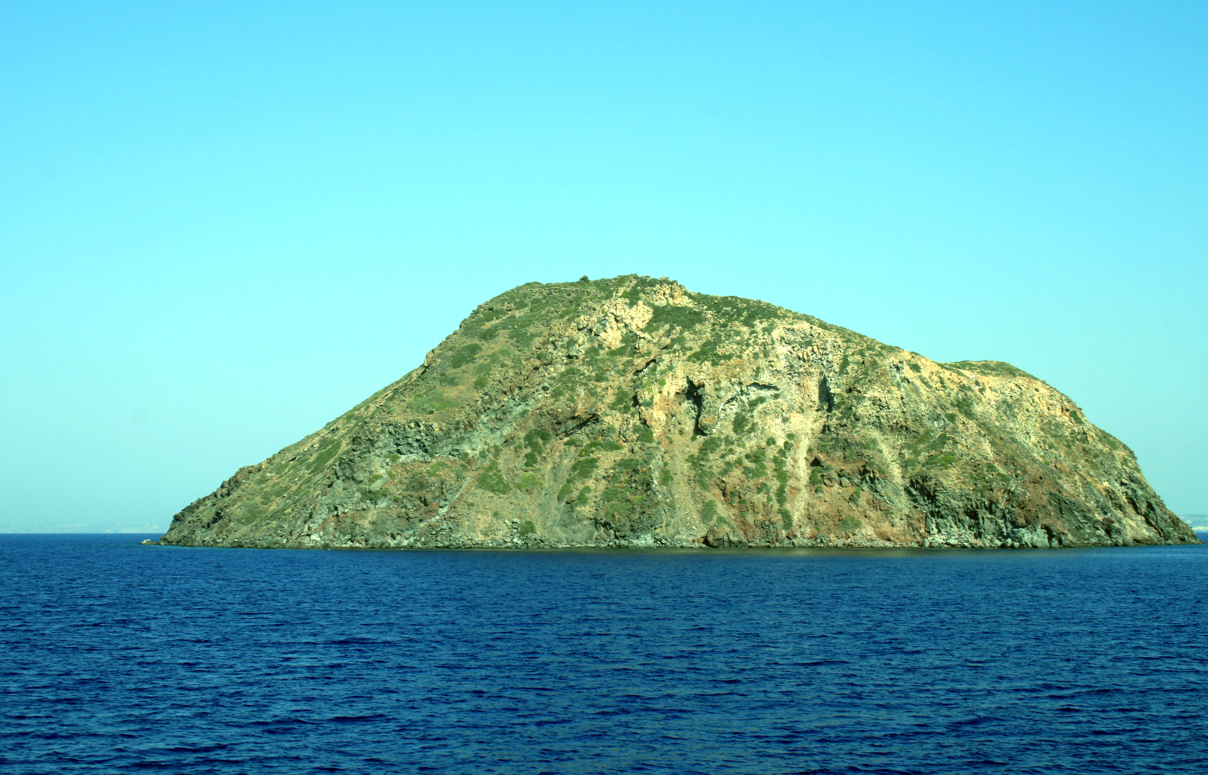 View from the sea to small island Strogyli near of Nisyros and Kos islands (Greece)